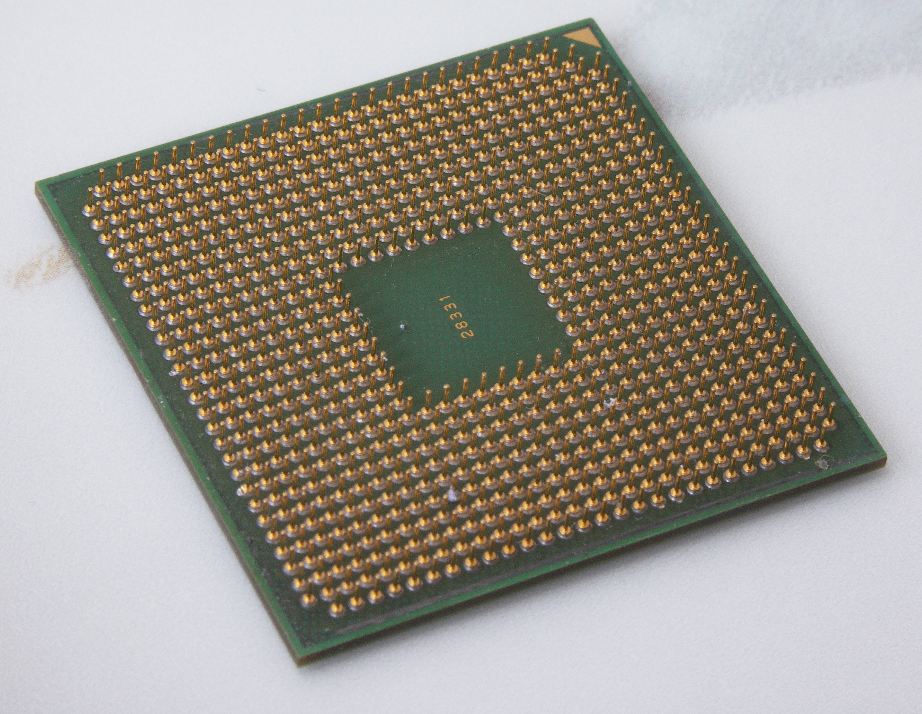 notebook processor Turion 64 from the manufacturer AMD with Lancaster core (Rev E5) for socket 754, model MT-34 – bottom